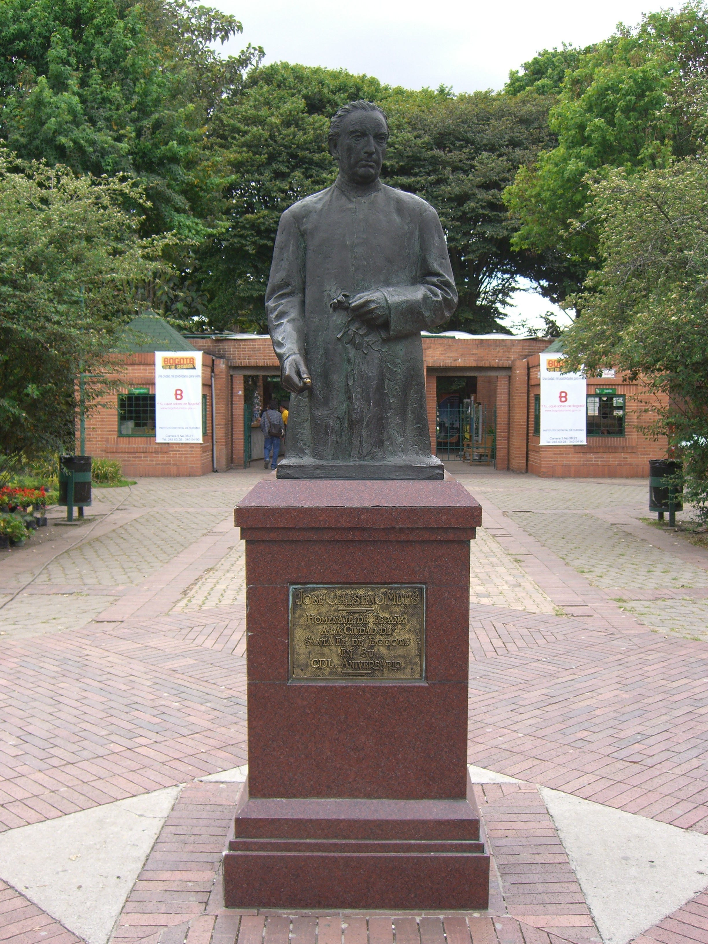 Statue in the entrance of Jardín Botánico José Celestino Mutis